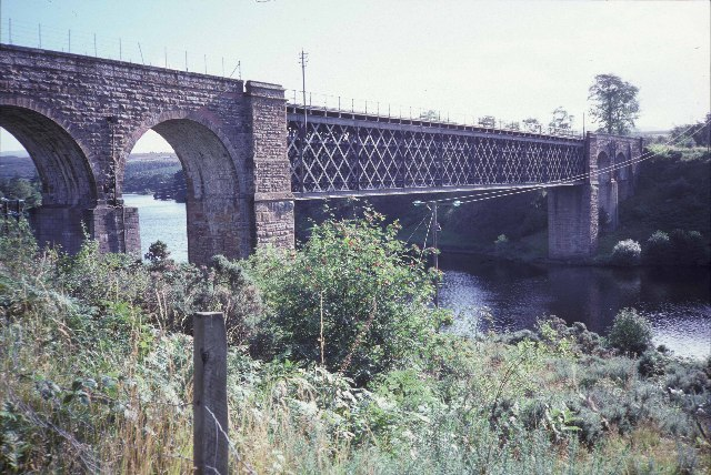 Railway bridge over the Kyle of Sutherland, between Culrain and Invershin stations. viewed from the eastern side (Invershin)